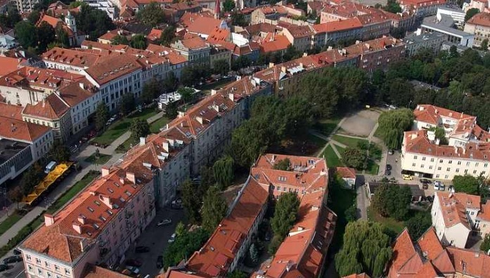 Vilnius - capital of Lithuania (EU)